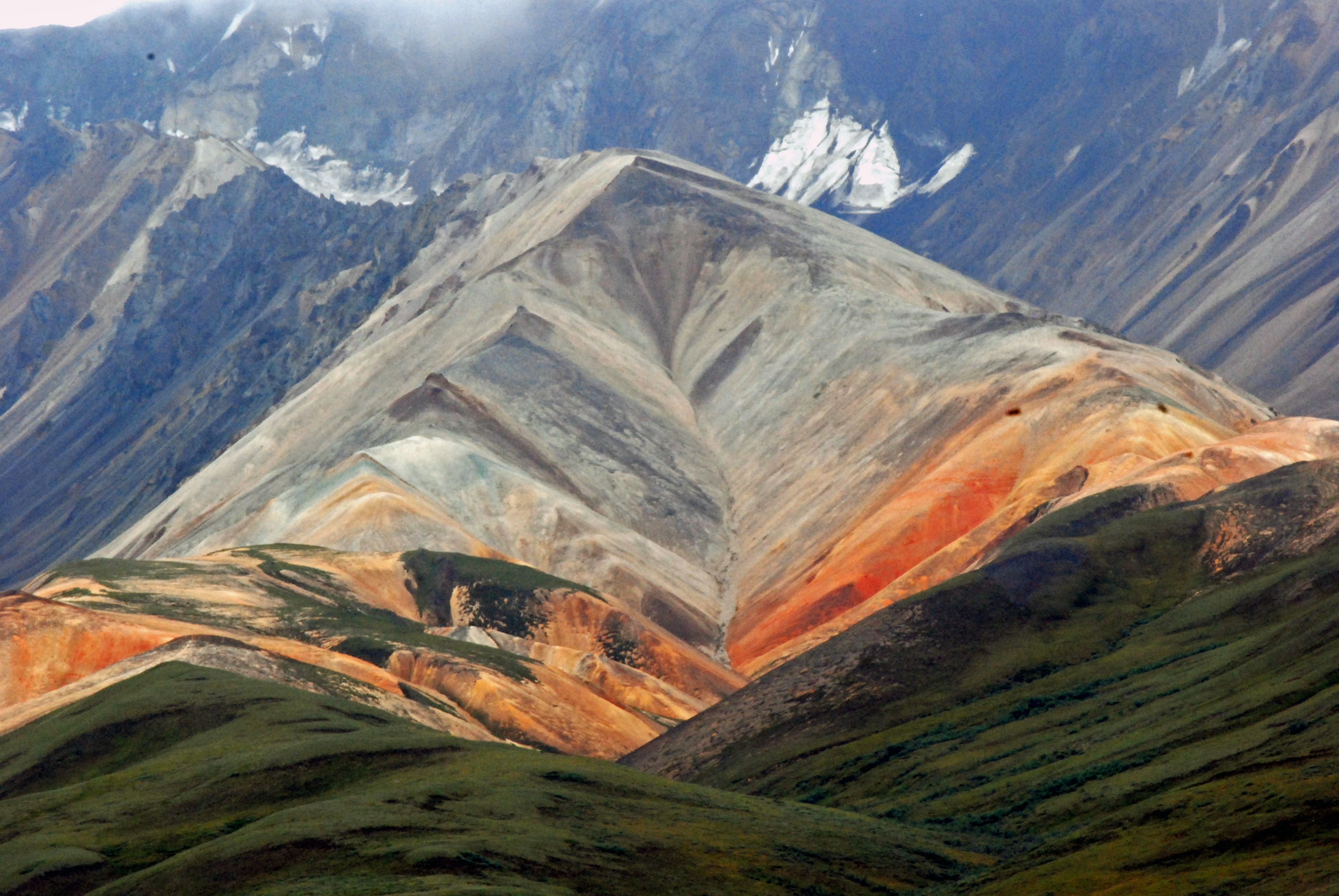 Denali National Park - Polychrome Mountains